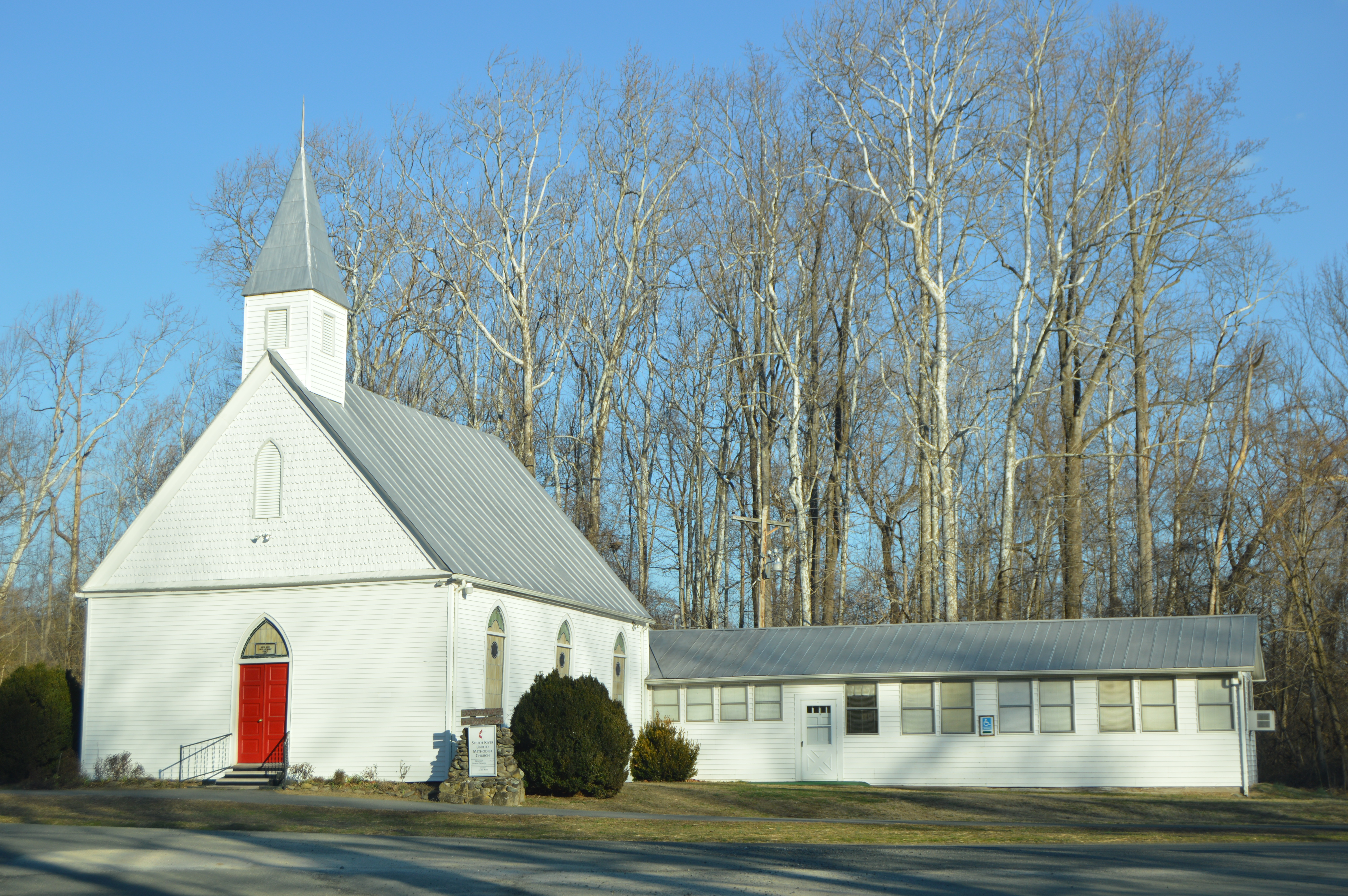 Front and southern side of South River United Methodist Church, located at the intersection of South River and Turkey Ridge Roads, just south of McMullen, in Greene County, Virginia, United States.